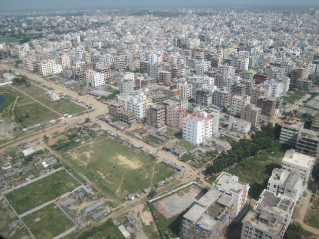 Bird's-eye view of Dhaka